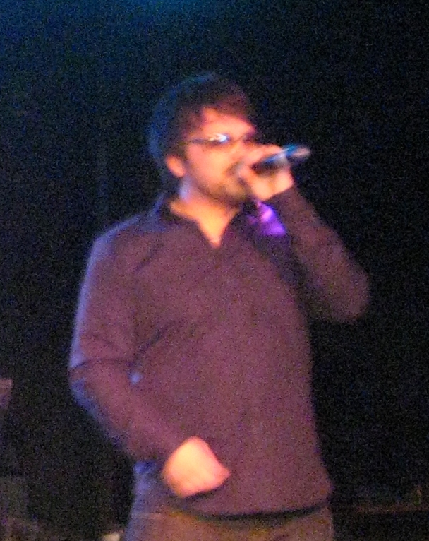 Paul Cattermole at 'S Club 7 reunion' gig, at Rewind, Reading, UK